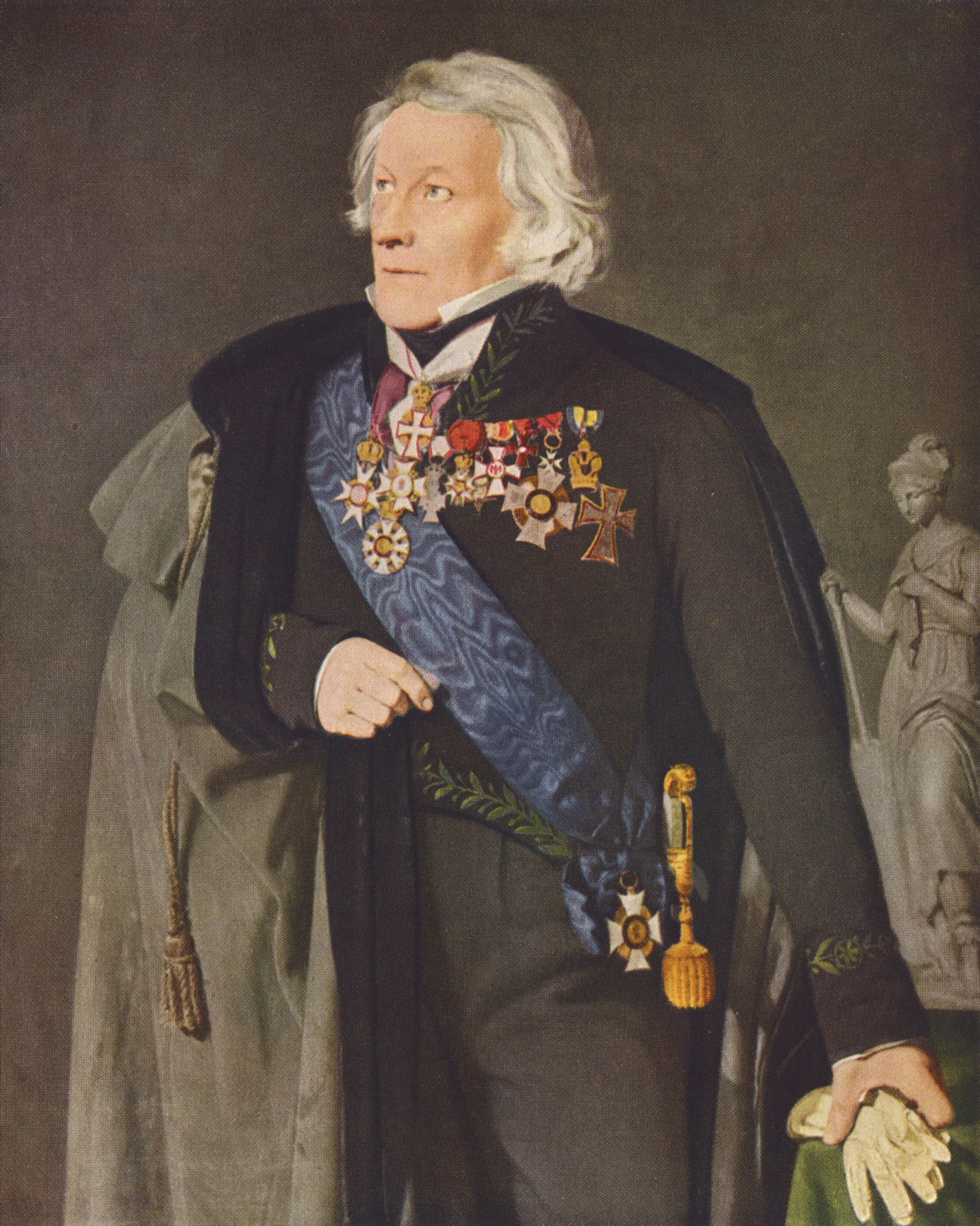 Bertel Thorvaldsen (1770-1844), Danish sculptor.